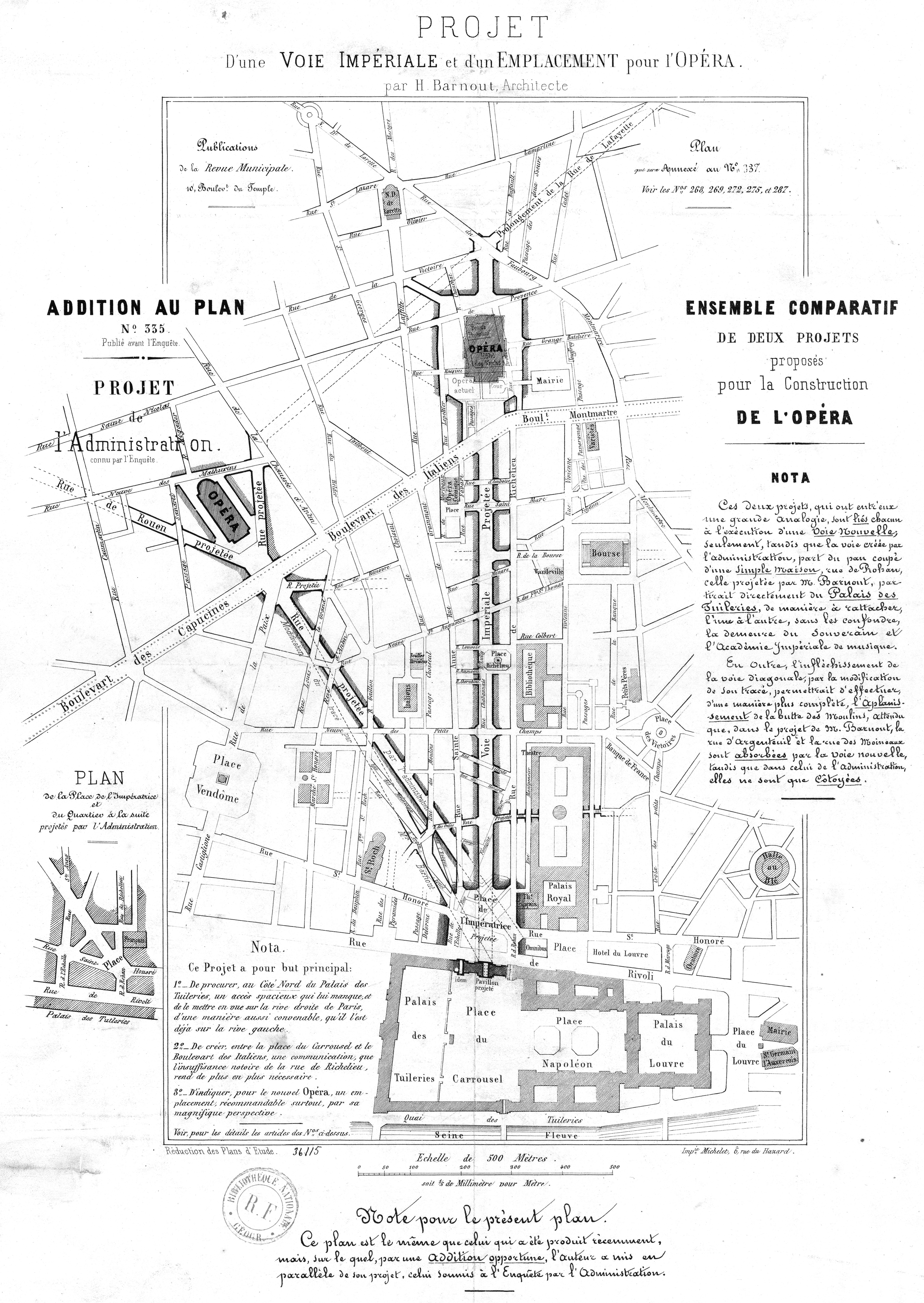 Two projected alternative sites for a new house for the Paris Opera, the first overlapping the site of Salle Le Peletier, the company's theatre at that time, and the second on the Boulevard des Capucines, where the Palais Garnier would soon be built. The plan also shows two proposed alternative routes for a broad imperial avenue running north from the Louvre to the new opera house. The second, at first referred to as the Avenue Napoléon, corresponds to the present-day Avenue de l'Opéra.